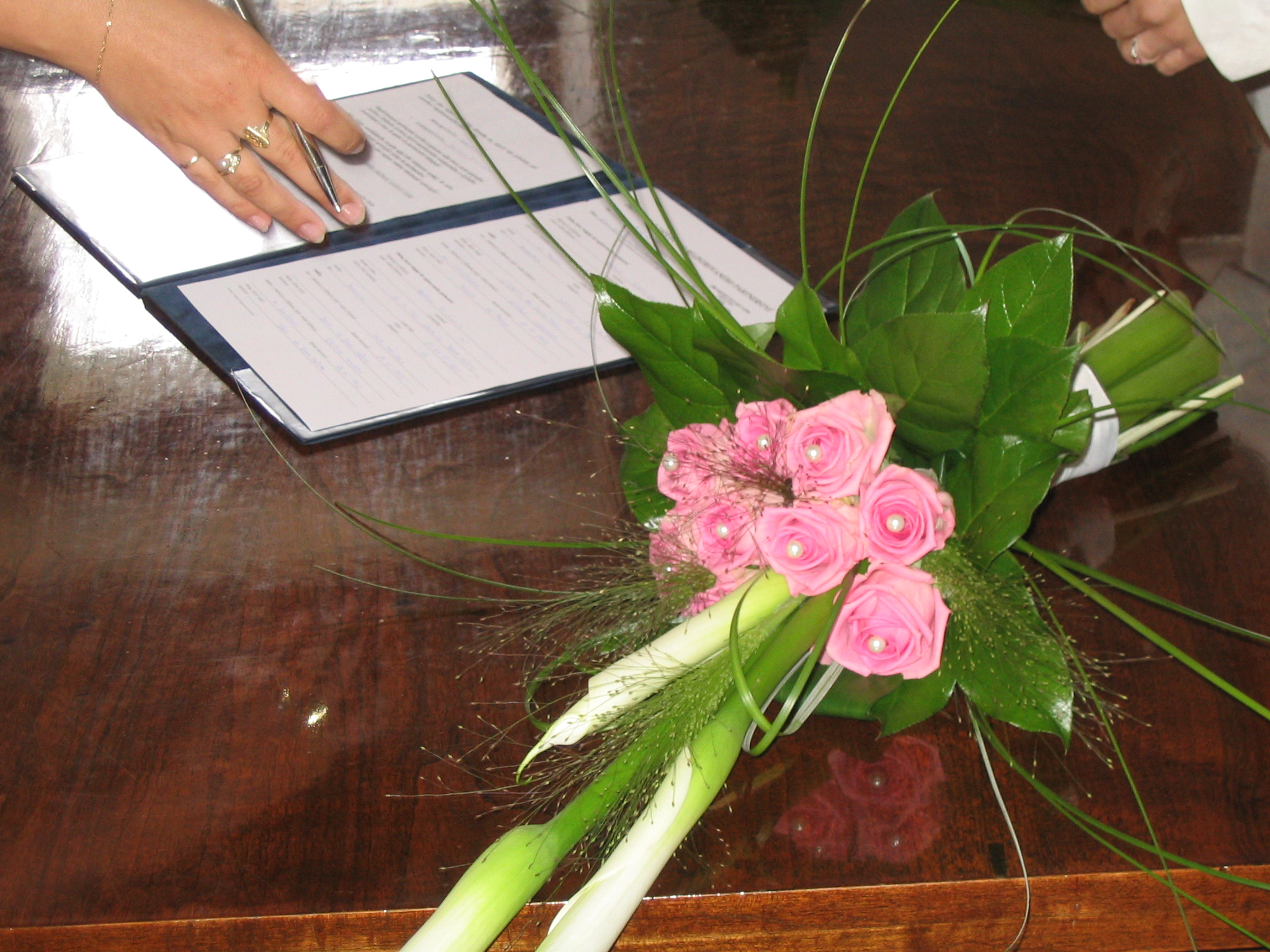 Pink roses & official formular for registered partnership. Brno, Czech Republic.